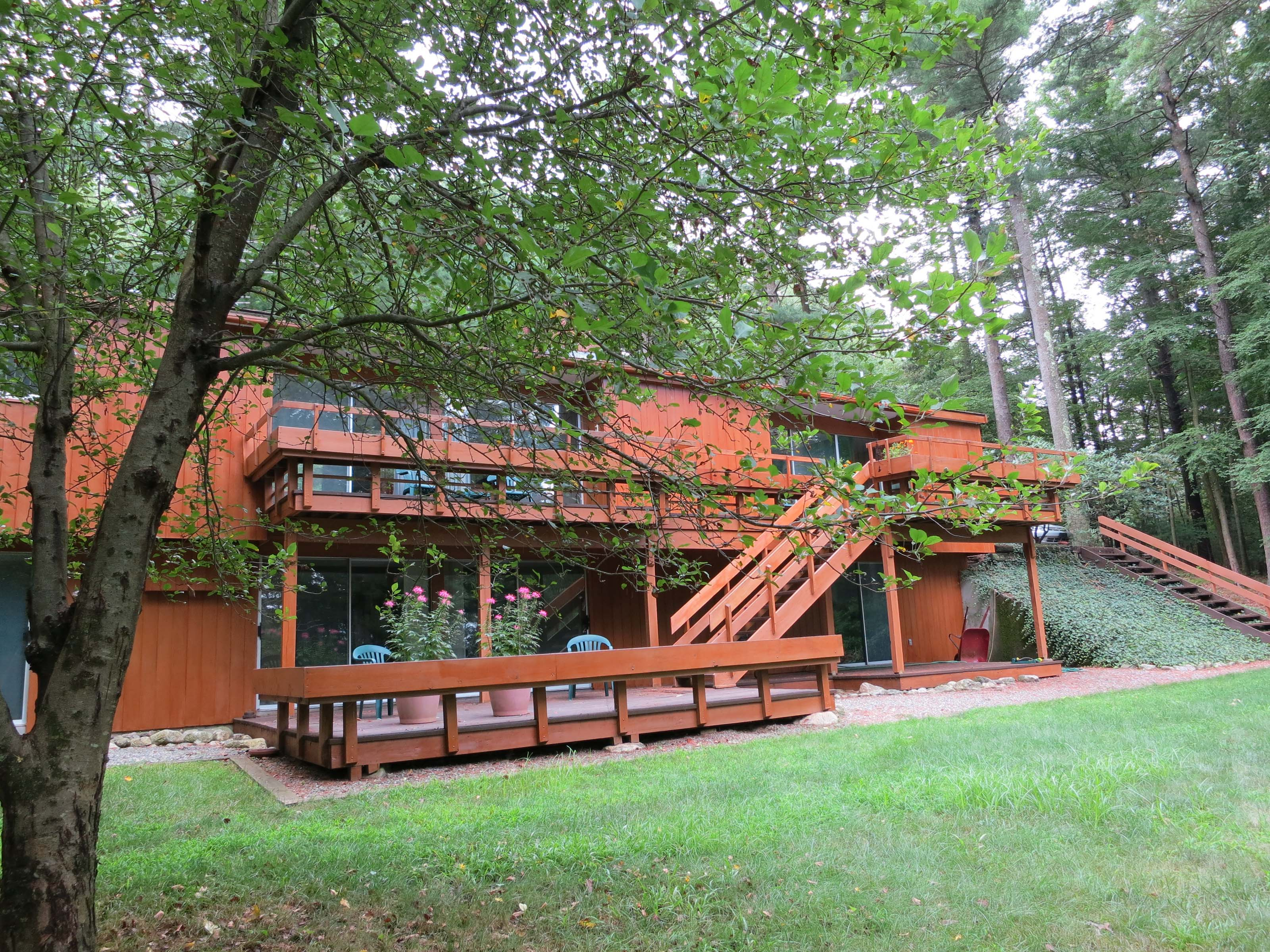 Private Residence, Concord, MA 1972 photo by D Cole